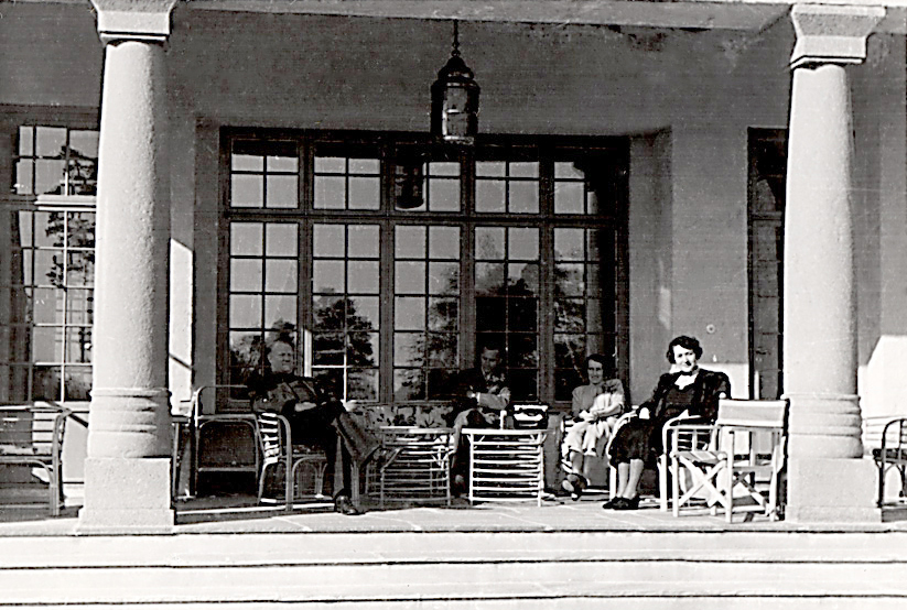 Lighter, retouched version of File:På Gimles terrasse. (8615478315).jpg showing Vidkun Quisling, Rolf Jørgen Fuglesang, Halldis Neegård Østbye and Maria Quisling at Gimle (Villa Grande) in Bygdøy, Oslo, Norway 1941–1945.